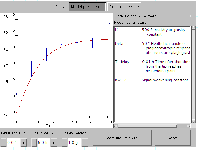 Java applet, demonstrating solution of complex differential equation. Uploaded by the person who wrote and owns the source code.